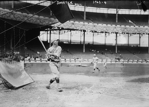 Chick Shorten of the Boston American League Club